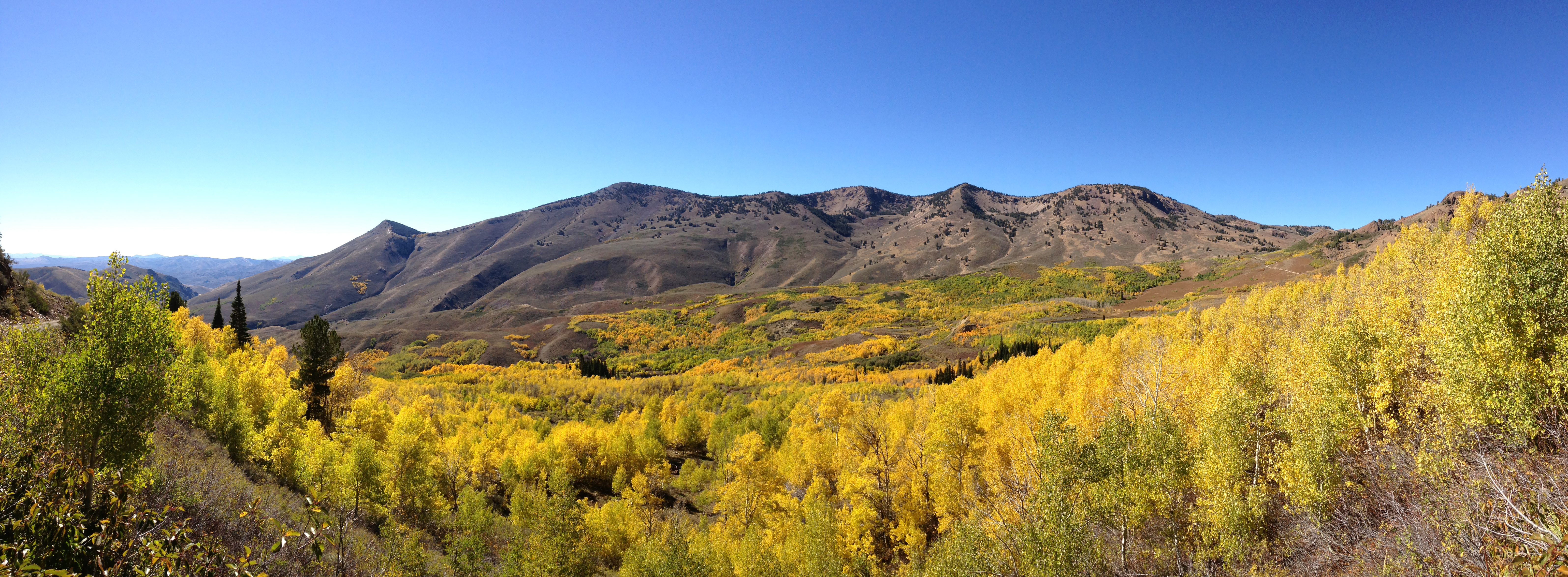 Panorama of Aspens during autumn leaf coloration and the Copper Mountains from Charleston-Jarbidge Road (Elko County Route 748) in Copper Basin about 10.7 miles north of Charleston, Nevada